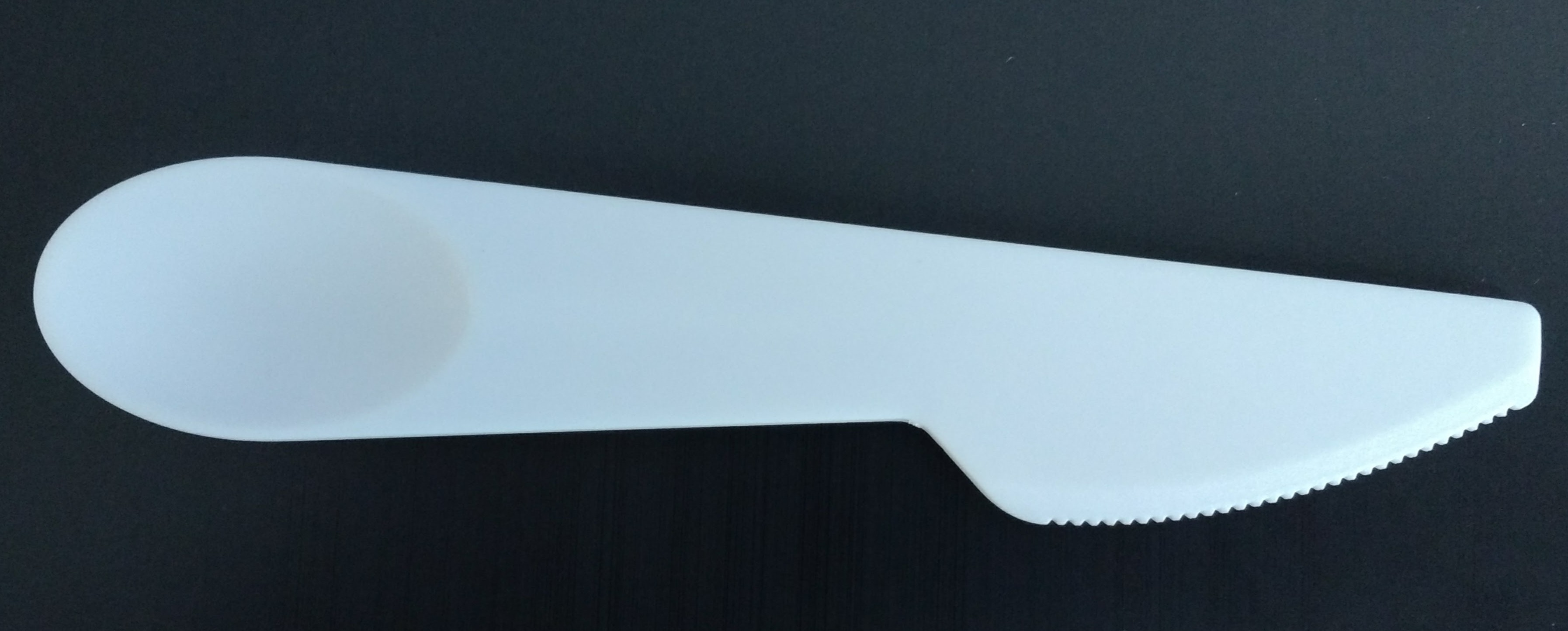 A utensil called a Spife used in Aer Lingus meals. This is similar to a Spork.